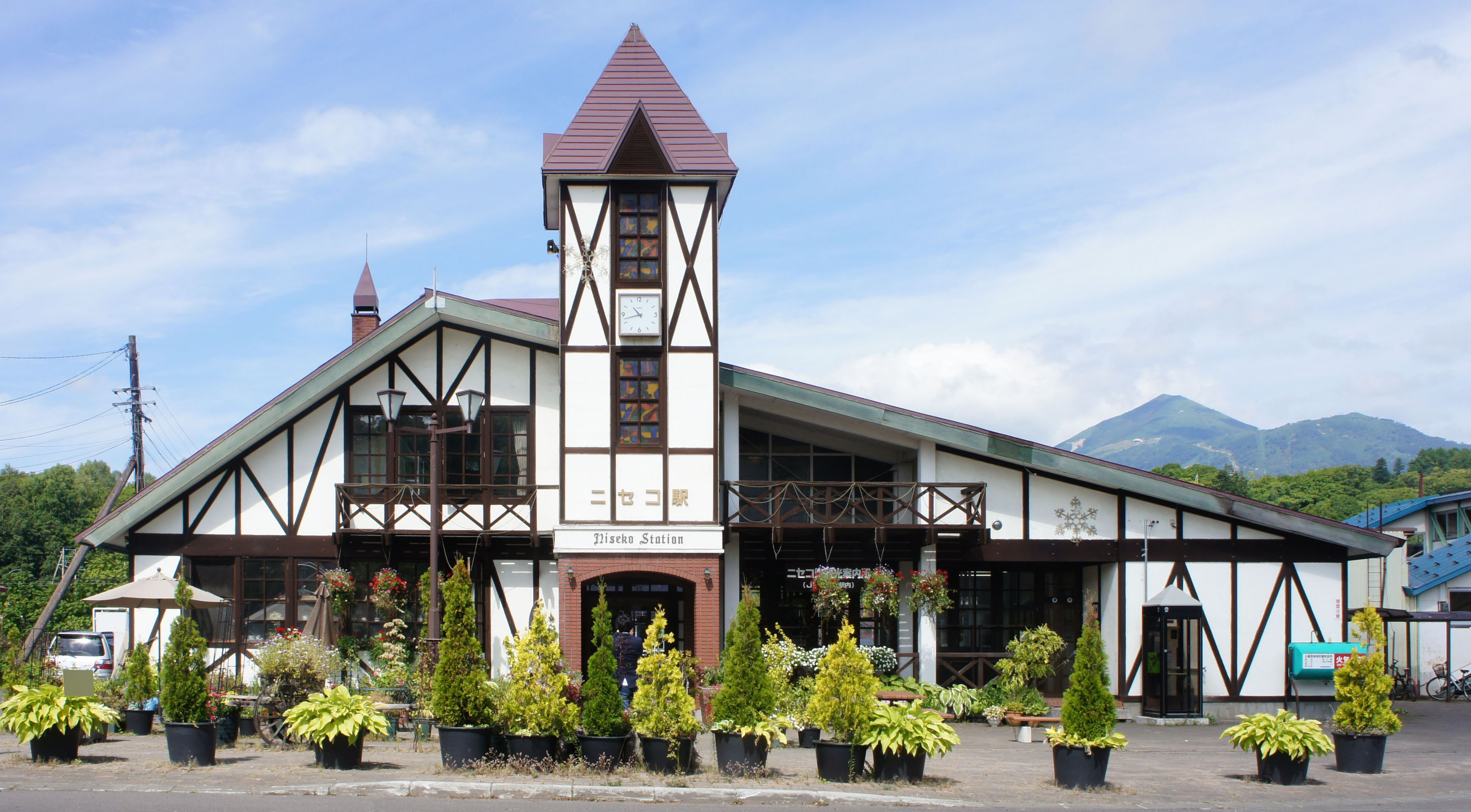 Station building of JR Hakodate-Main-Line Niseko Station